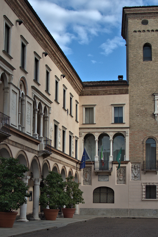 Particular of town hall of Crema (Italy)